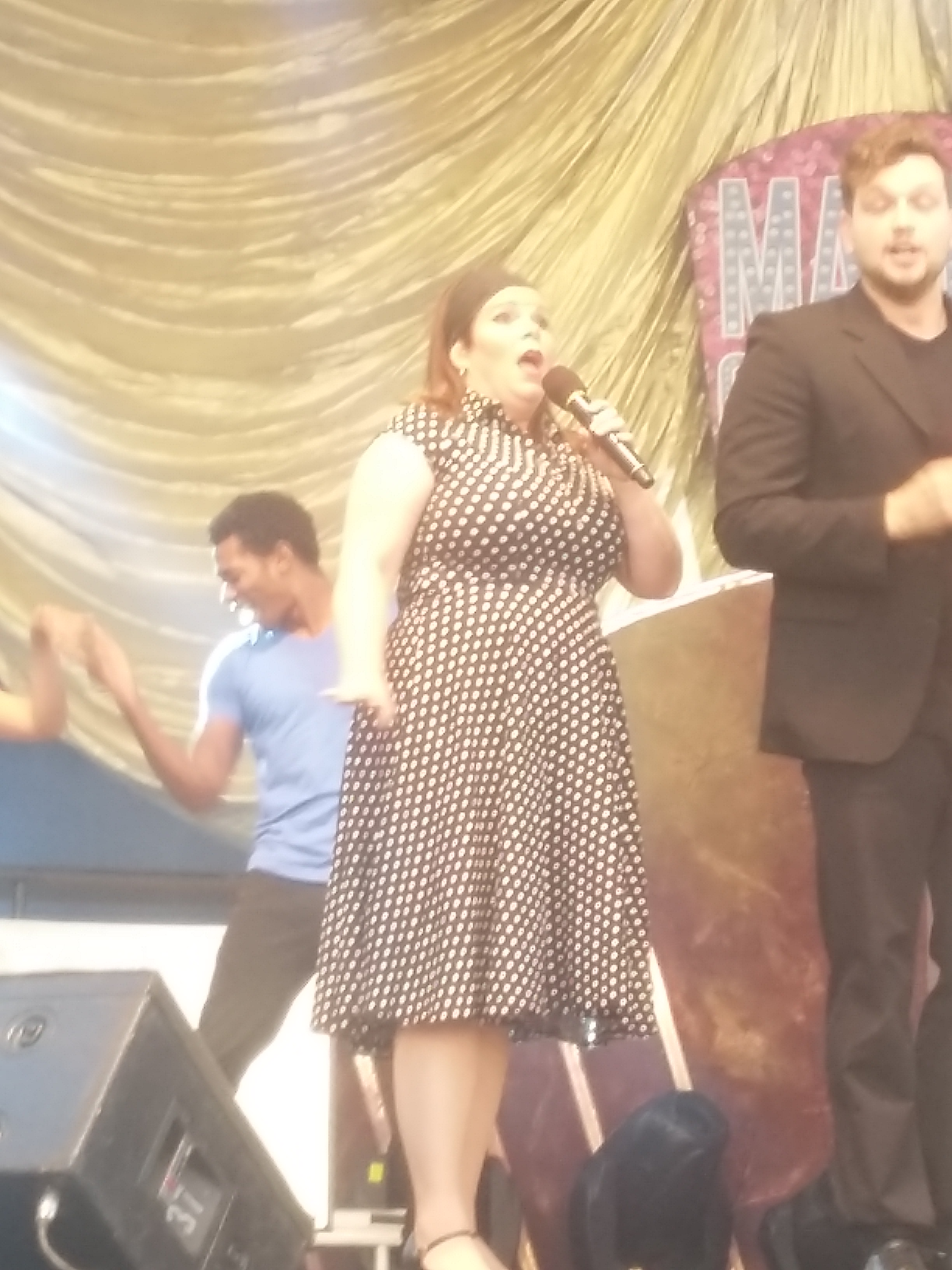 Nancy Fortin photographed in Montreal, Quebec, Canada at the Just For Laughs festival.